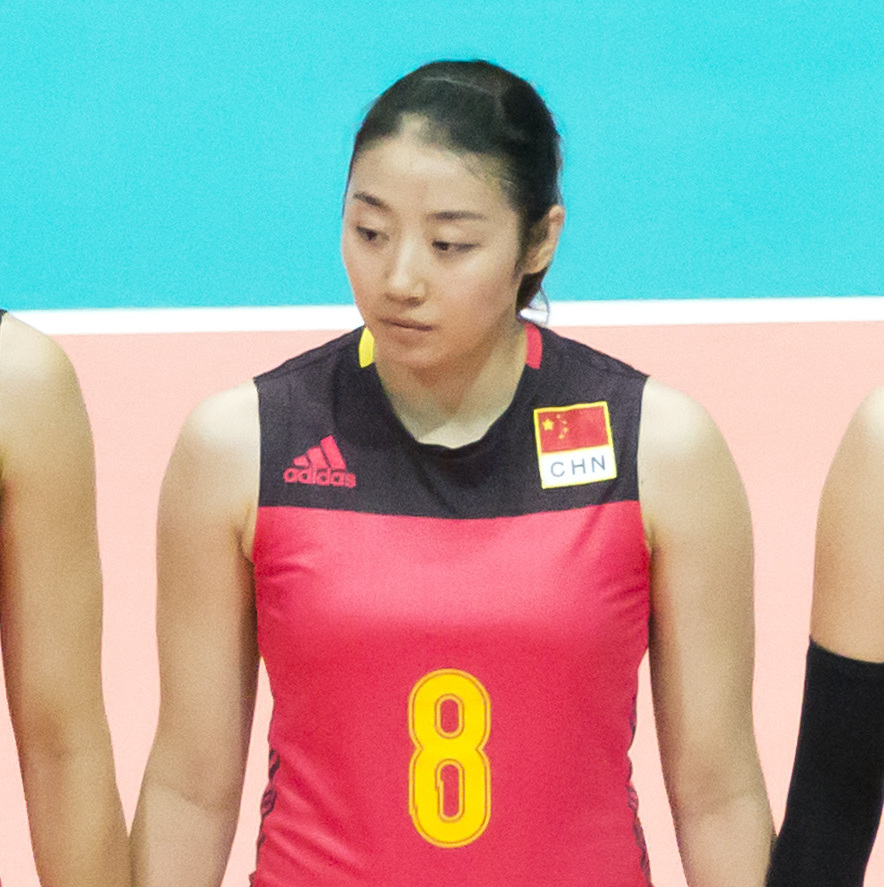 China team 1. XINYUE YUAN袁心玥 2. TING ZHU朱婷 3. JING LI 4. JINGWEN QIAN 5. YI GAO高意 6. XIANGYU GONG龚翔宇 8. DI YAO 姚廸 10. XIAOTONG LIU刘晓彤 12. YIXIN ZHENG 15. LI LIN林莉 16. XIA DING丁霞 17. YUANYUAN WANG 18. MENGJIE WANG 21. YUNLU WANG